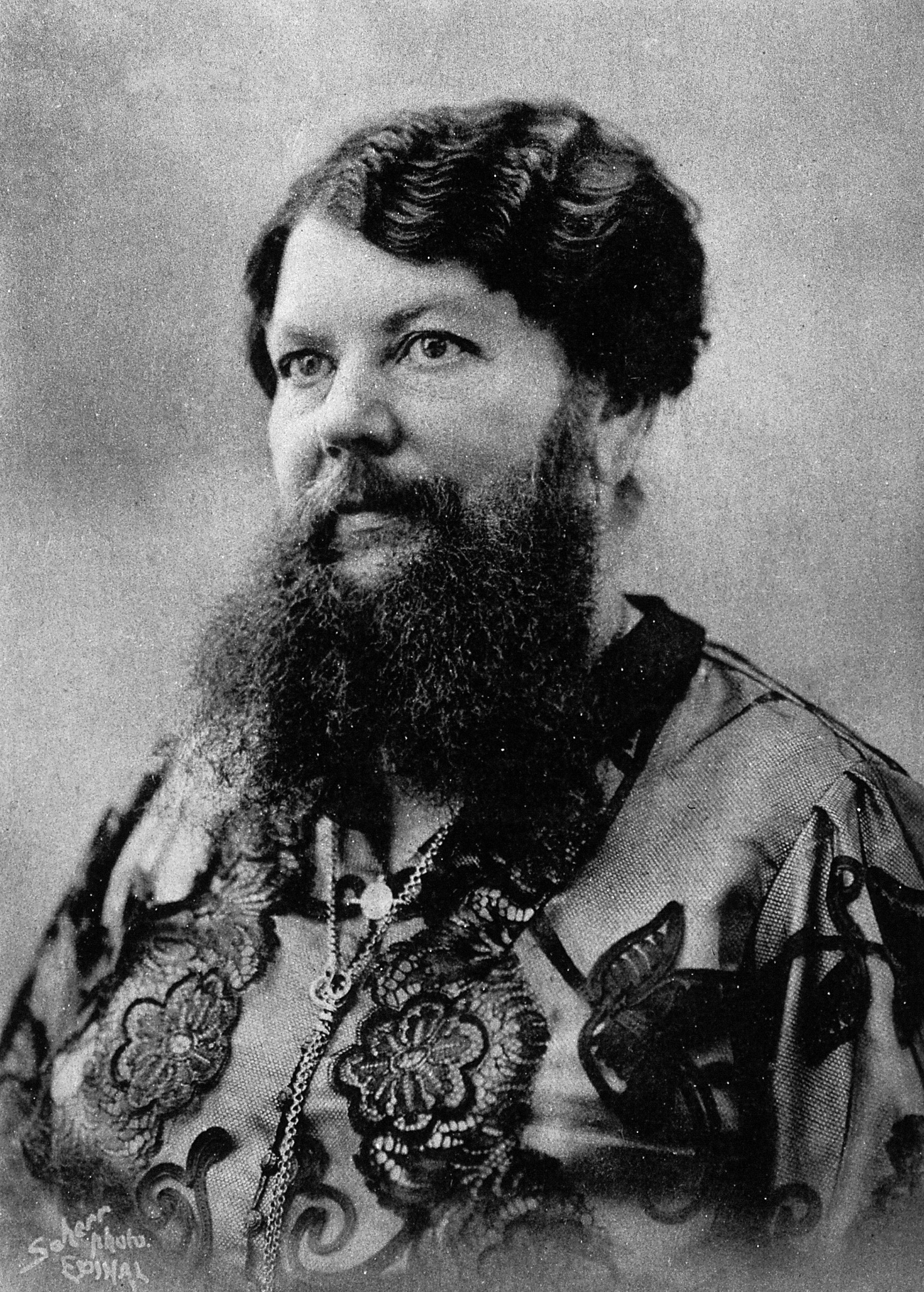 Madame Delait, the bearded lady of Plombières